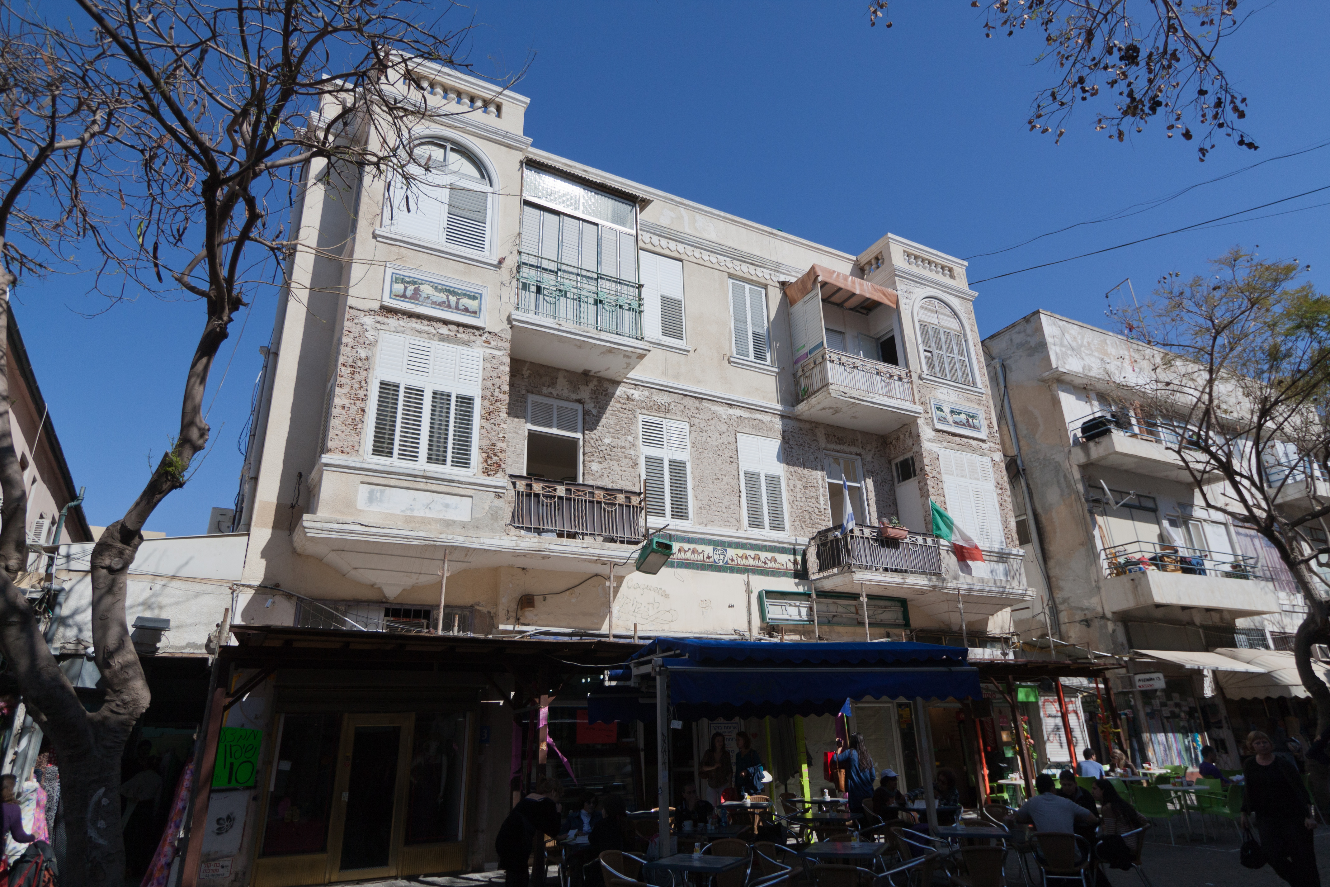 "Camels House", 13 Nachlat Binyamin St., Tel Aviv